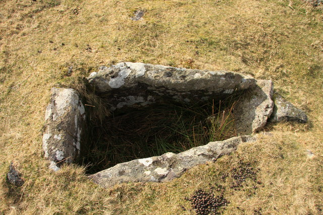 Cist on Harford Moor Part of the abundant evidence of extensive settlement of the Erme valley.